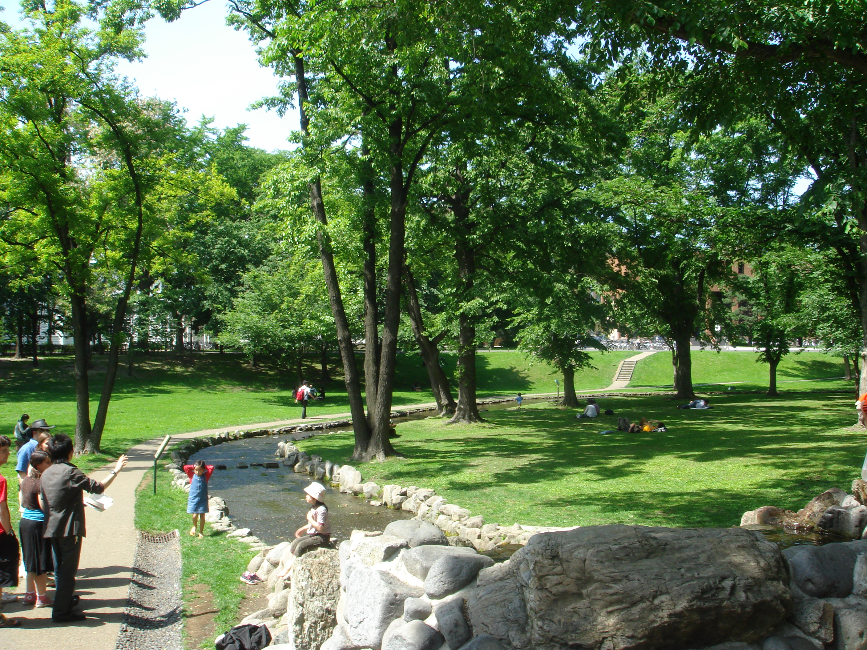 Commons at Hokkaido University ( Near Riyugakusei Center )